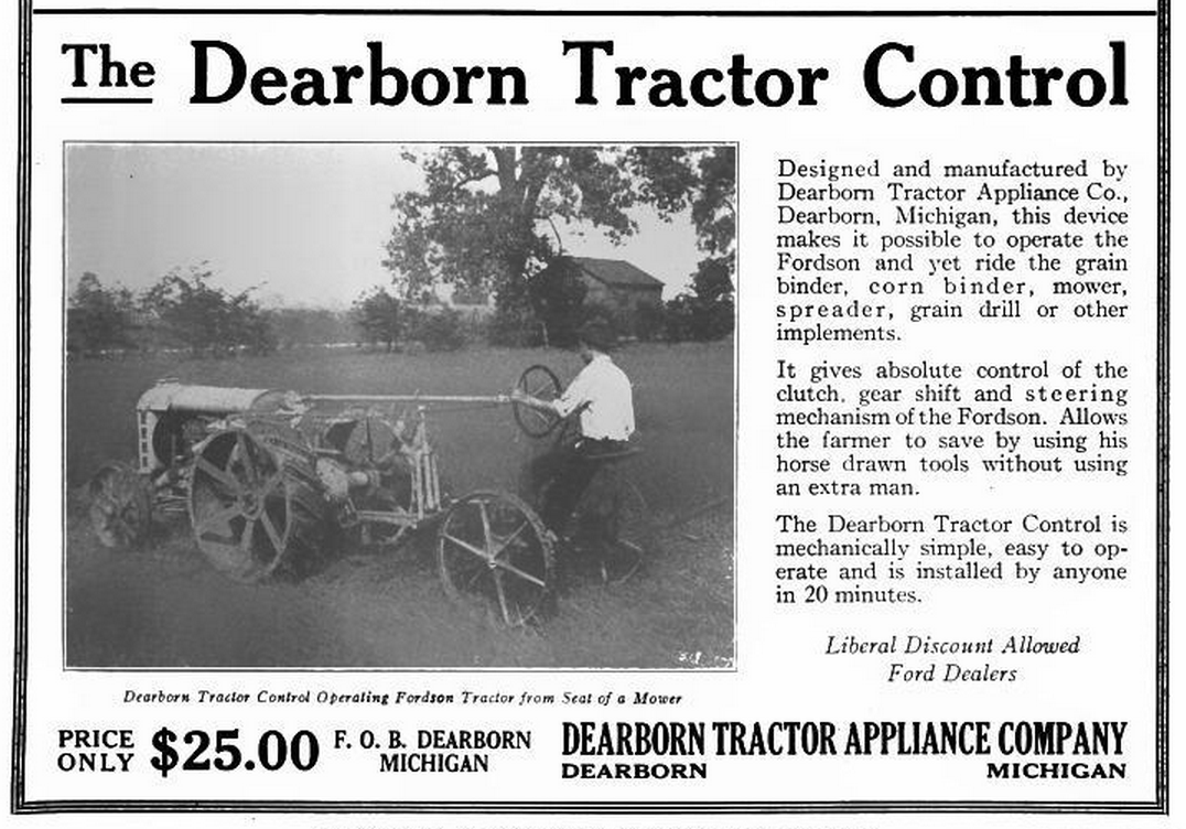 Advertisement for the Dearborn Tractor Control attachment for the Fordson tractor, Farm Mechanics magazine, June 1922.